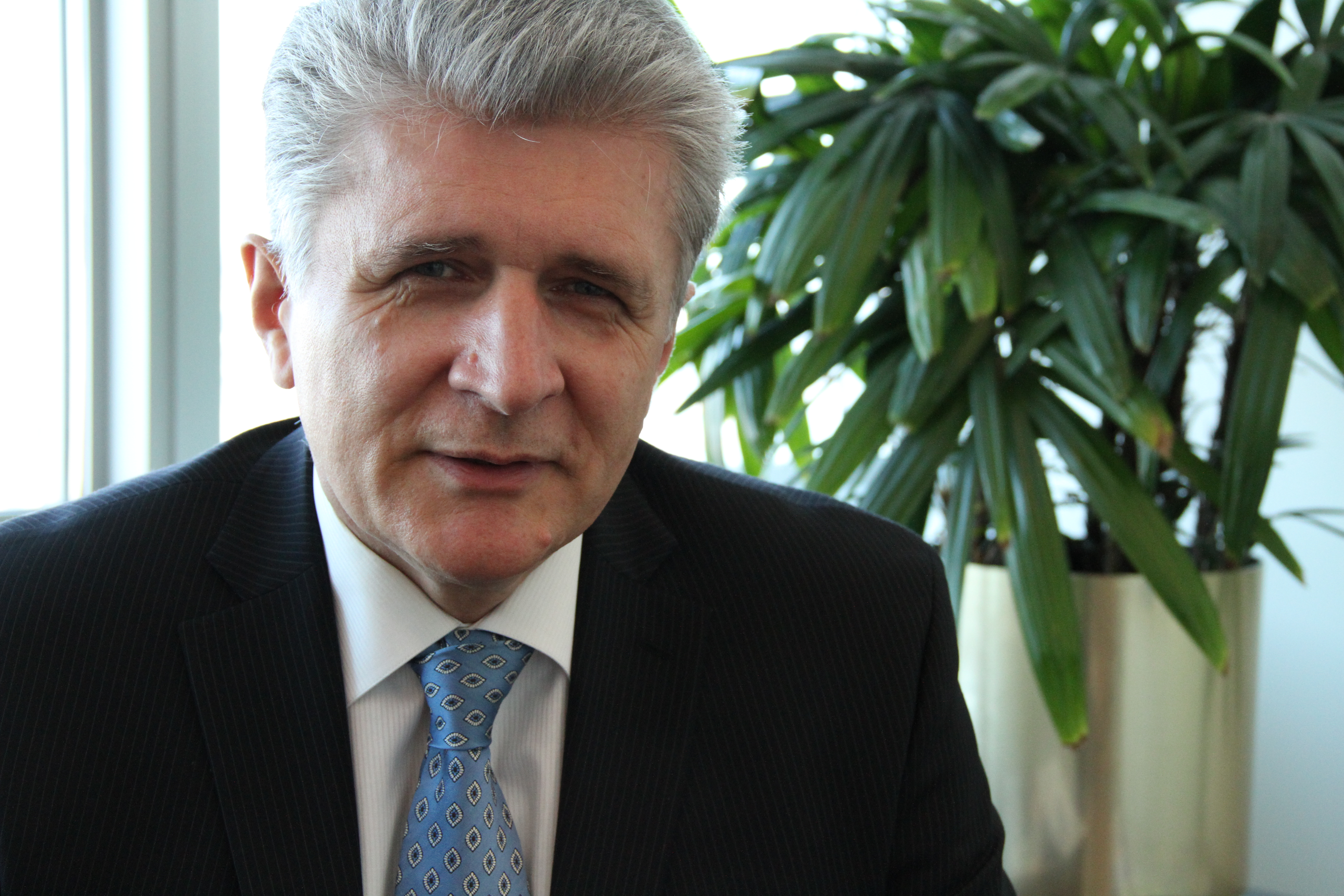 Image